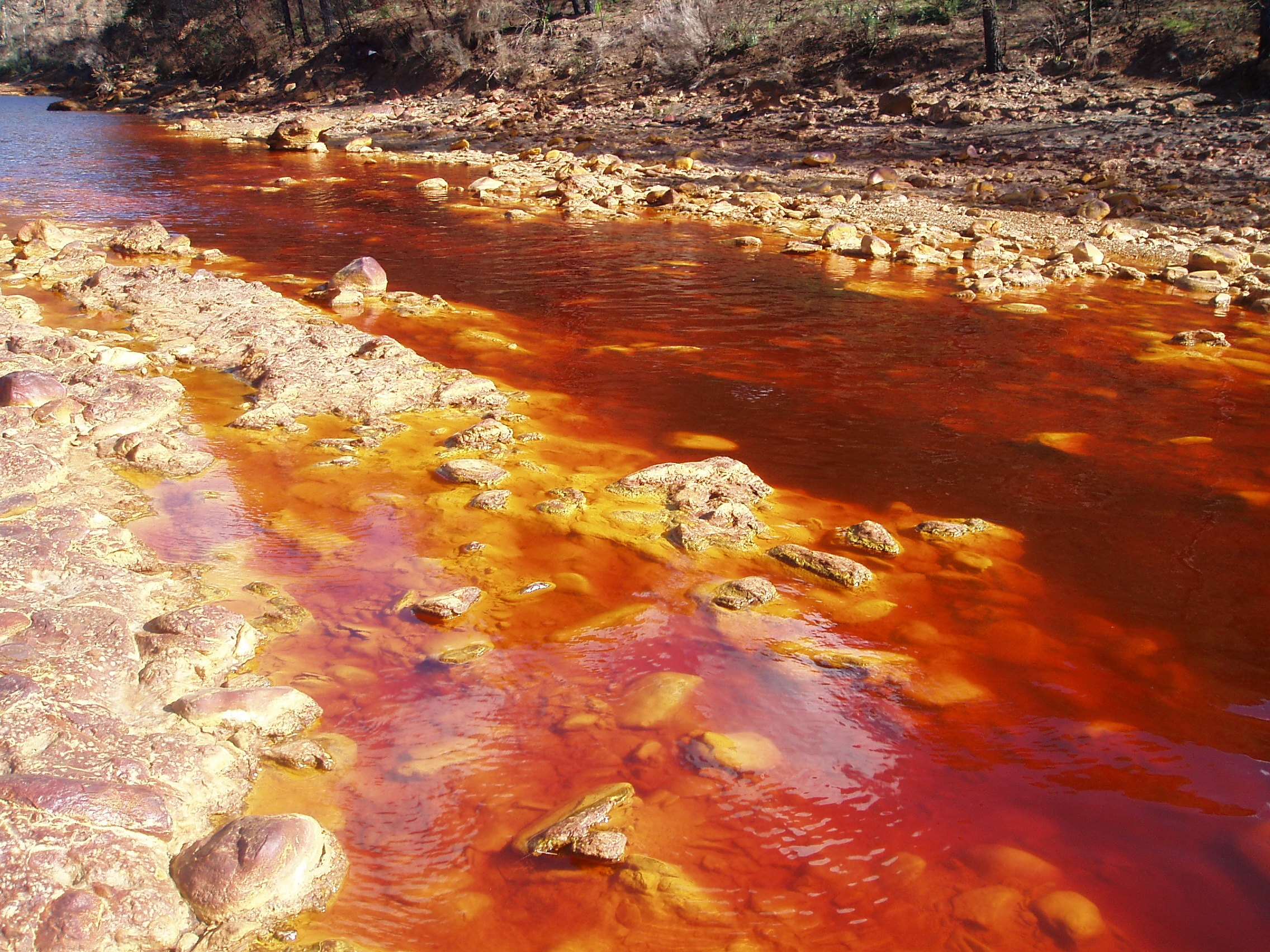 waters of the Rio Tinto, Spain.